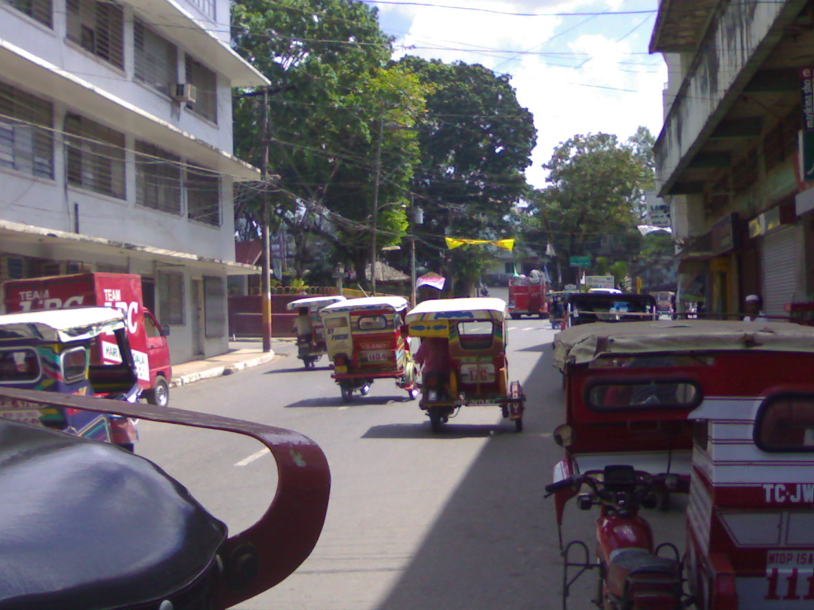 snapshot of busy J. S. Alano Street, Isabela City's main thoroughfare.